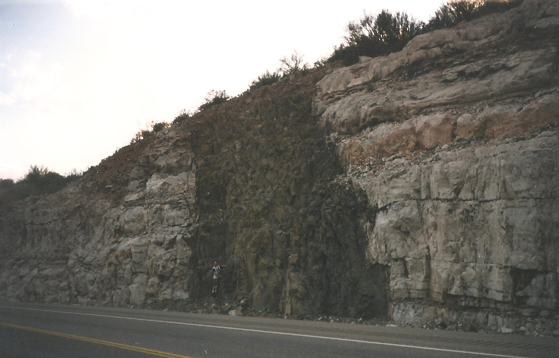 Diabase dike cutting through horizontal limestone beds near Winkelman. Taken March 1998.